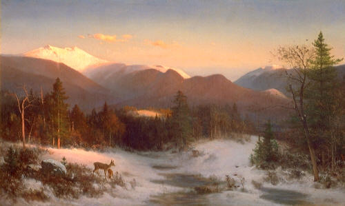 This is an image of a painting by Thomas Hill dated 1870 which is in the public domain.